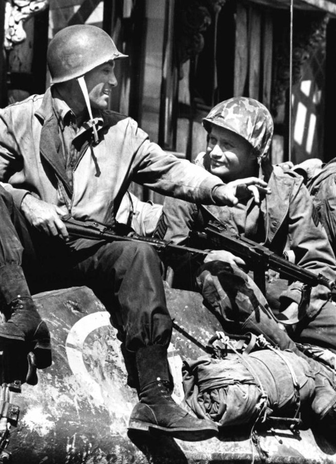 Photo of Rick Jason and Vic Morrow from the premiere of the television program Combat.